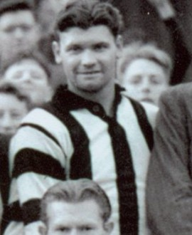 Photo of Len Hustler from 1942-1945